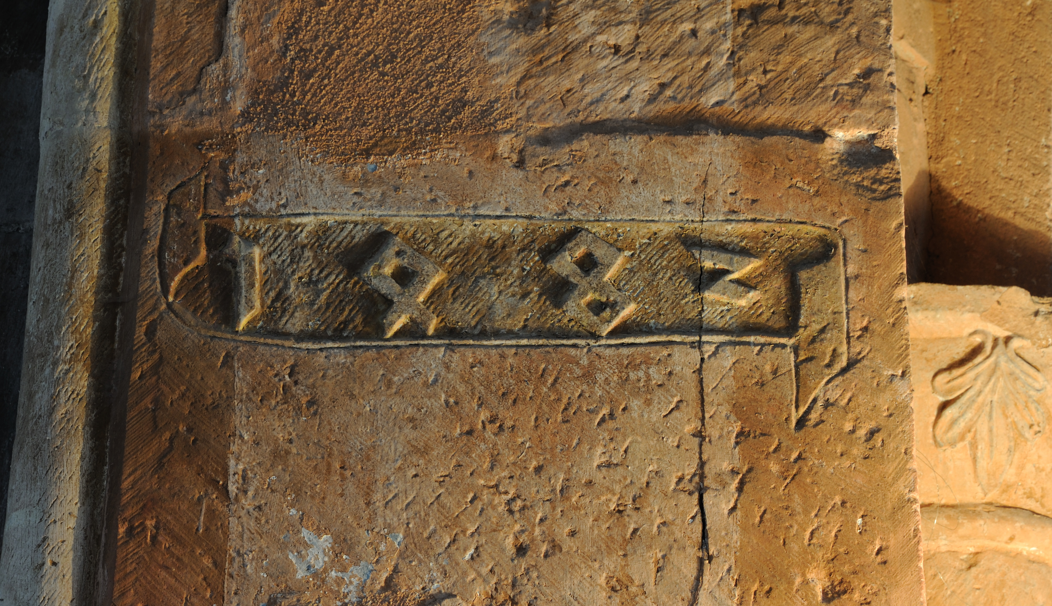 Schopfheim: Old City Church, date 1482 in gothic all caps